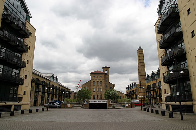 Burrells Wharf Square picture